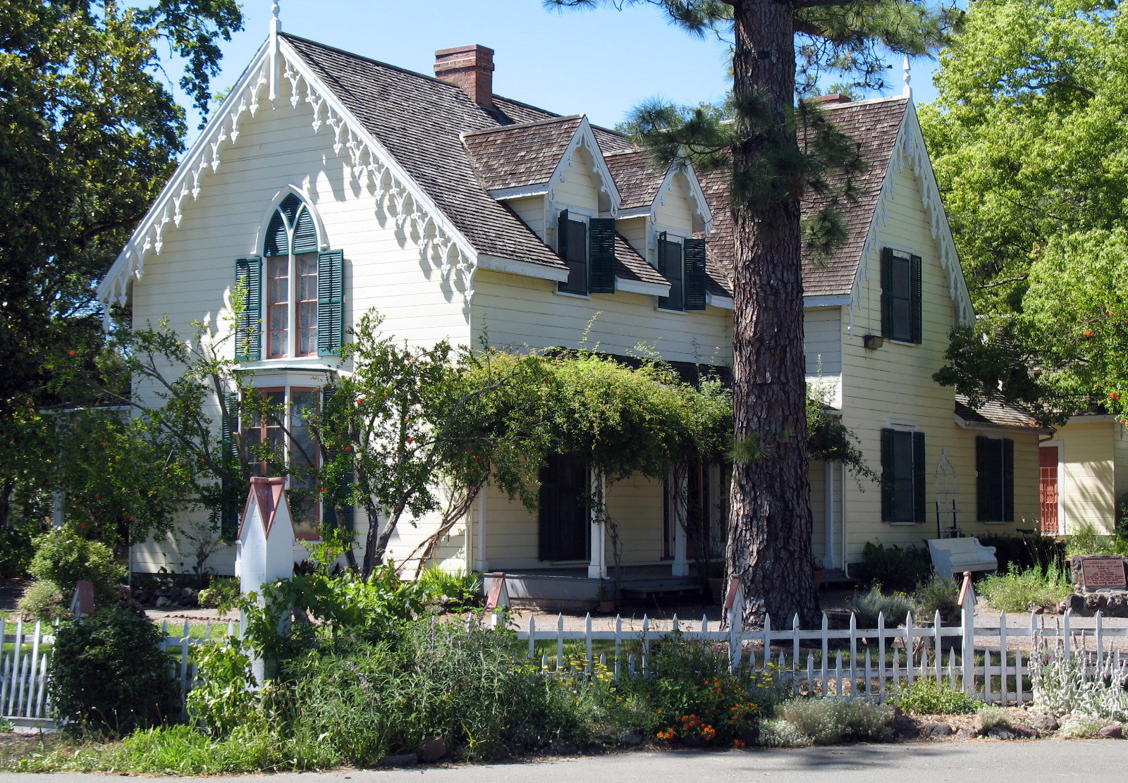 National Register of Historic Places listings in Sonoma County, California. Vallejo Estate, Vallejo Home State Park in Sonoma State Historic Park, Spain and W. 3rd Sts., Sonoma, California, USA